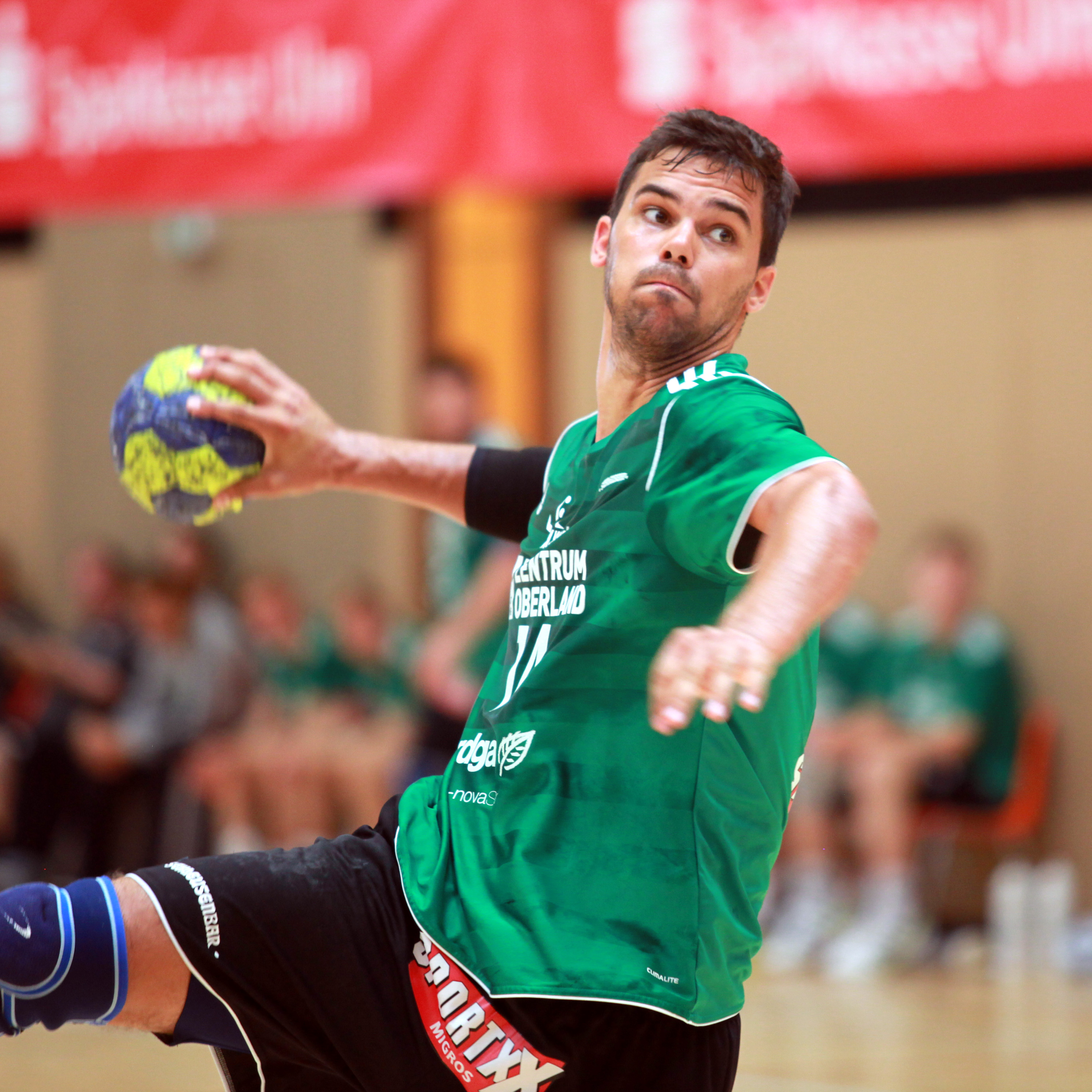 Lukas von Deschwanden, on August 18th, 2012 in Ehingen (Germany), during the Sparkassen Cup (formerly known as Schlecker Cup).